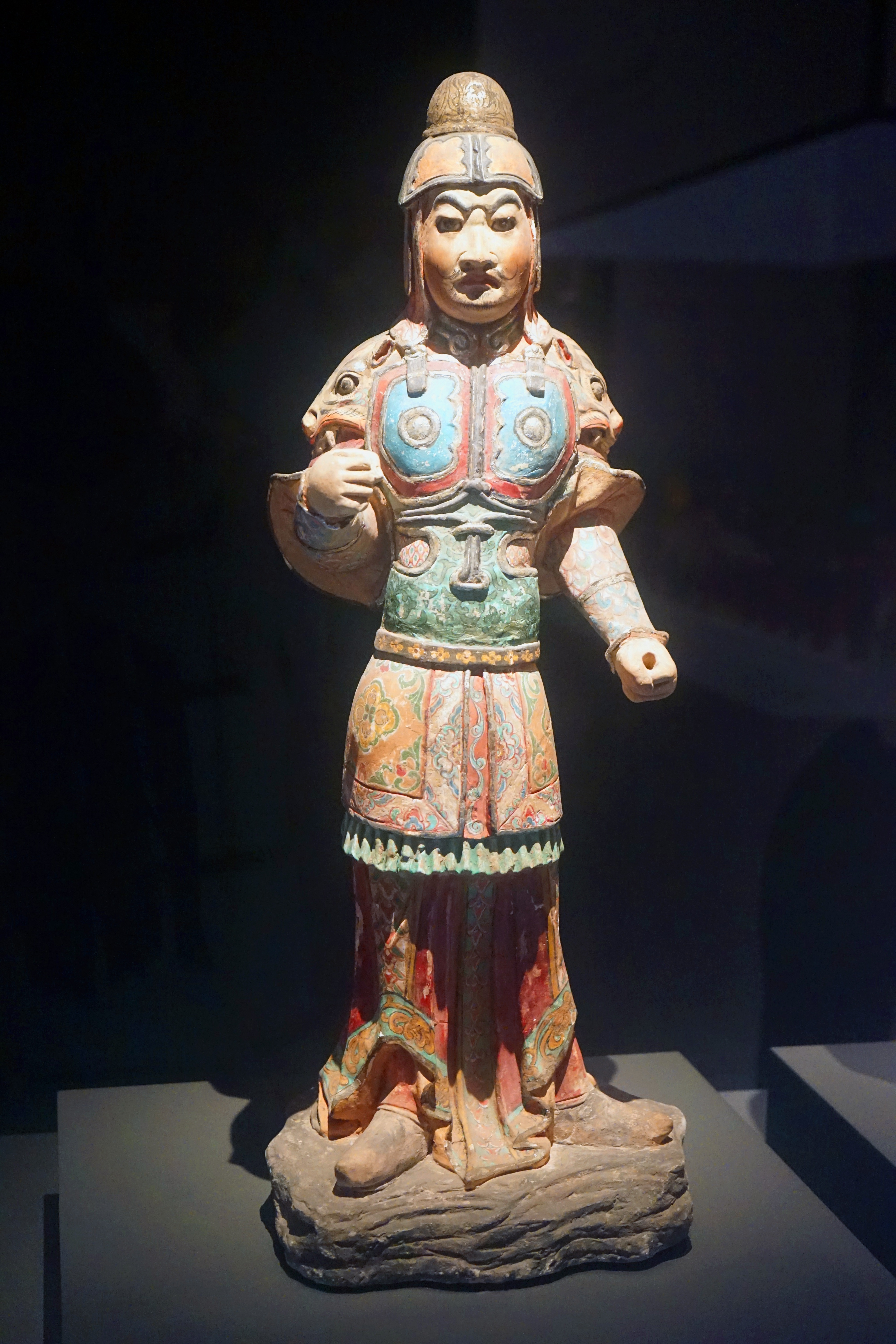 Painted and Gold Traced Pottery Military Officer. Unearthed from Zhang Shigui's tomb in 1971. Zhaoling Museum. 一级文物